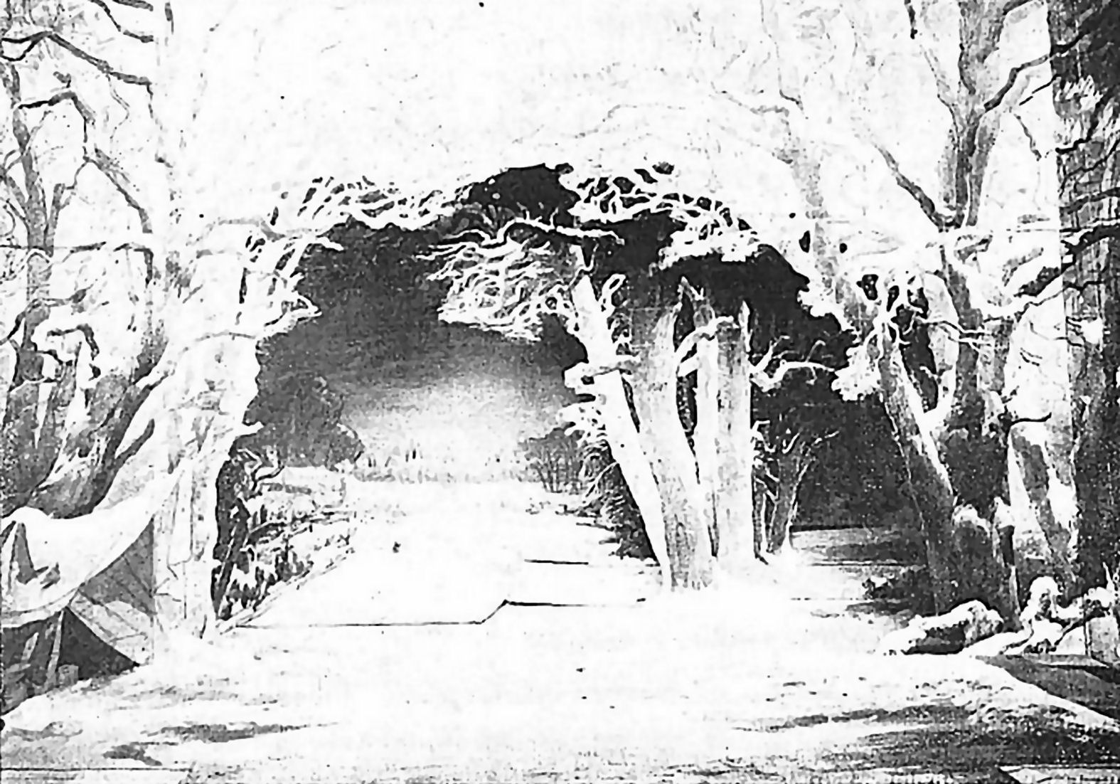 Le Prophète: model of the opera set for the third act by Edouard Despléchin (1849)